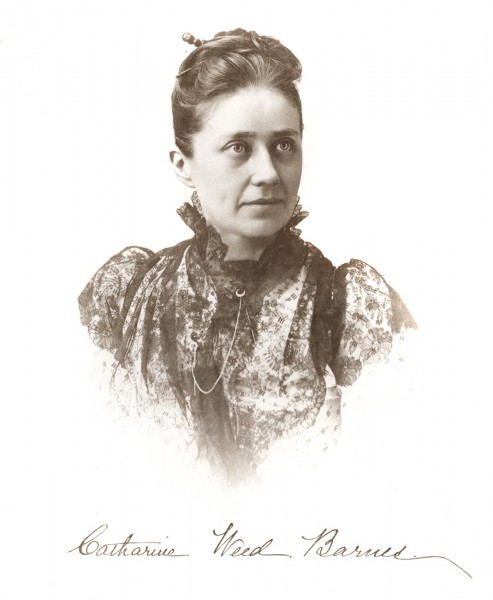 Photograph of American photographer Catharine Weed Barnes published in The Photographic Times, 1890